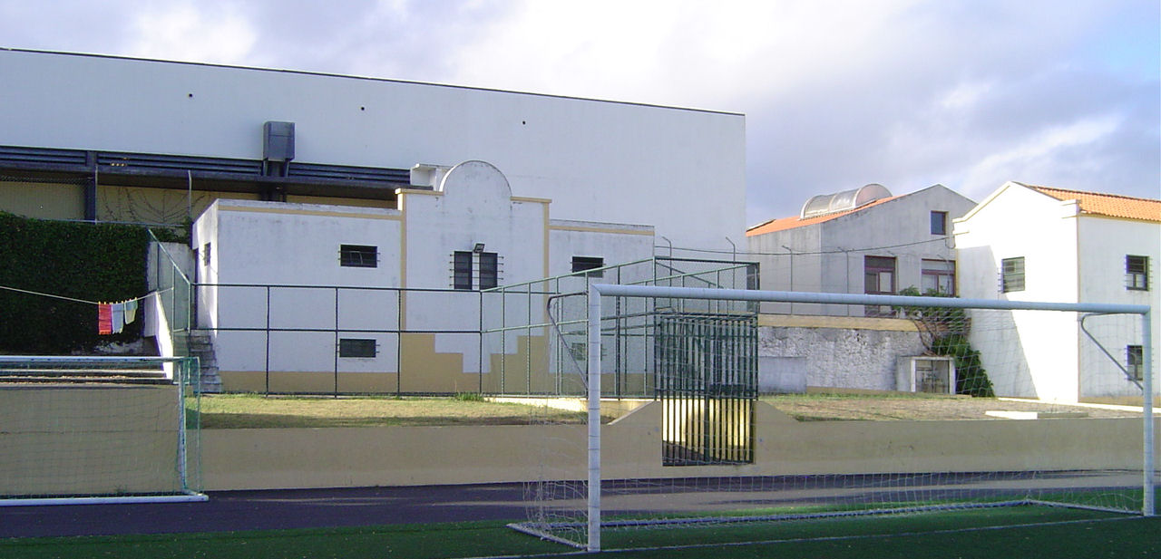 Campo Municipal Jâcome Correia - northern view. The stadium is used by Capelense Sport Club and Clube União Micaelense, Portuguese football clubs based in Ponta Delgada on the island of São Miguel in the Azores.